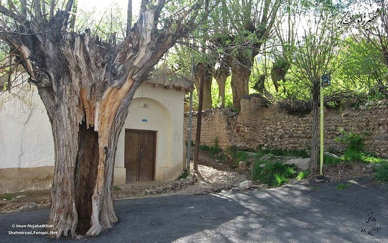 Balasheikhi Neighborhood